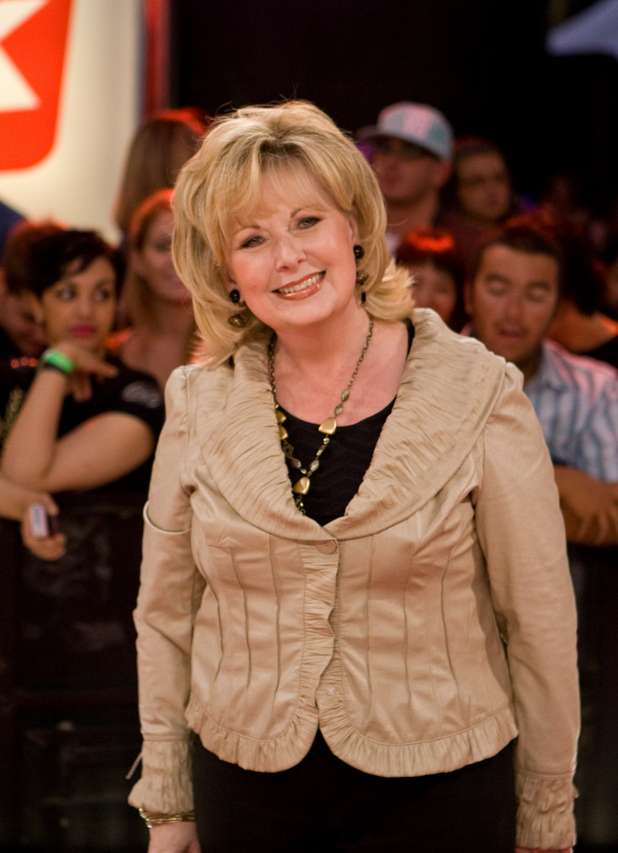 Pamela Wallin at the eTalk Festival Party, during the Toronto International Film Festival.